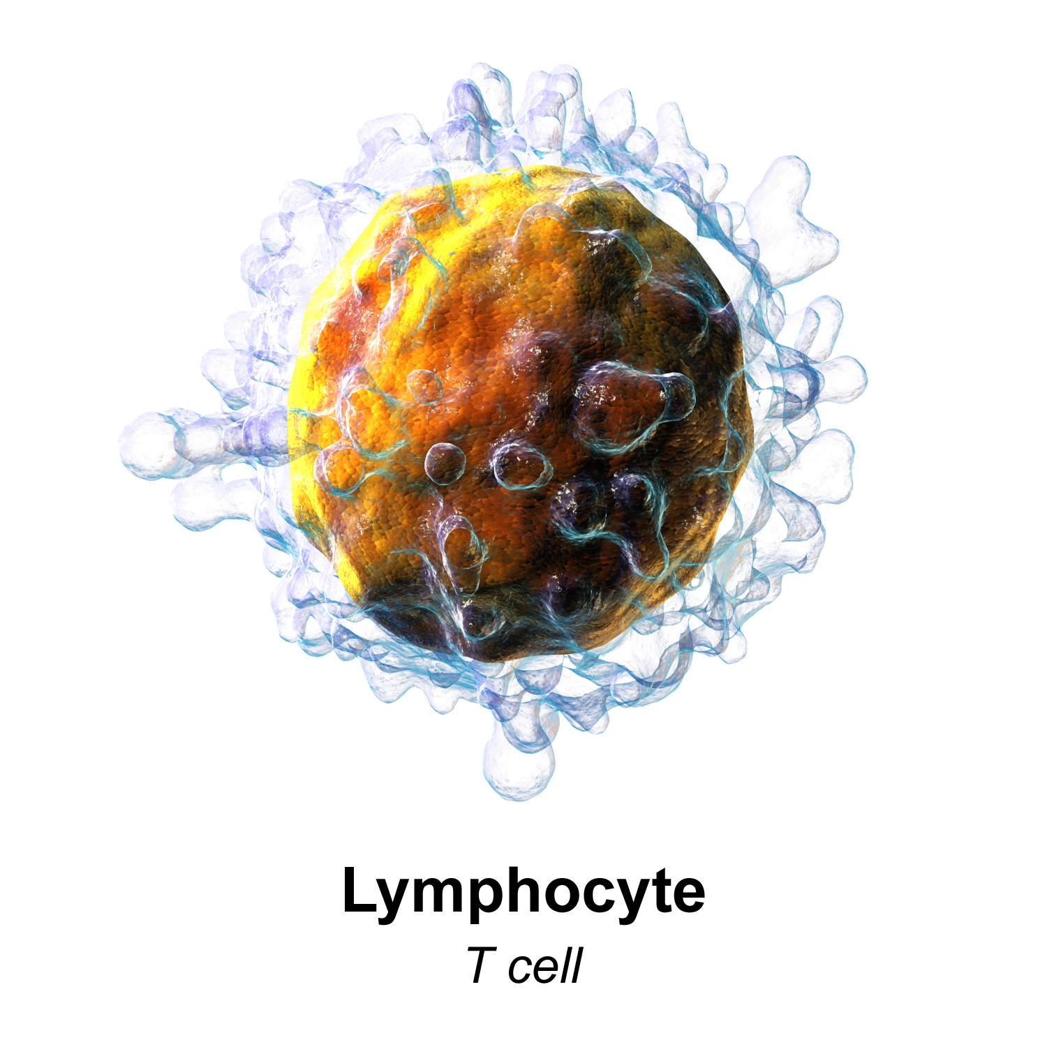 T cell. See a full animation of this medical topic.